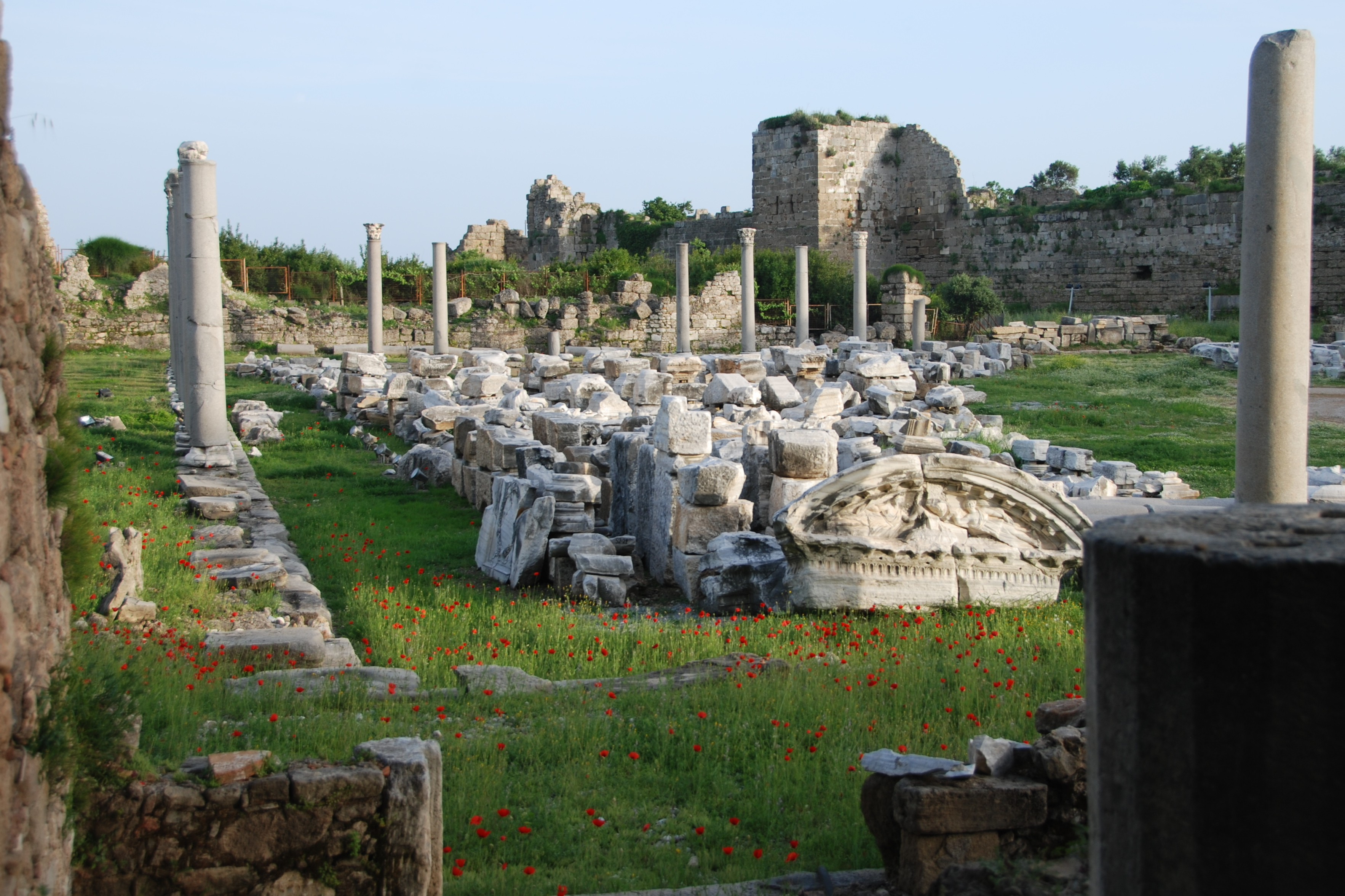 Side: An den Kolonnaden worden einige Säulen wieder aufgestellt. Die übrigen Architekkturteile füllen mehr oder weniger geordnet den Innenhof. Im Hintergrund der große Turm der inneren Mauer.